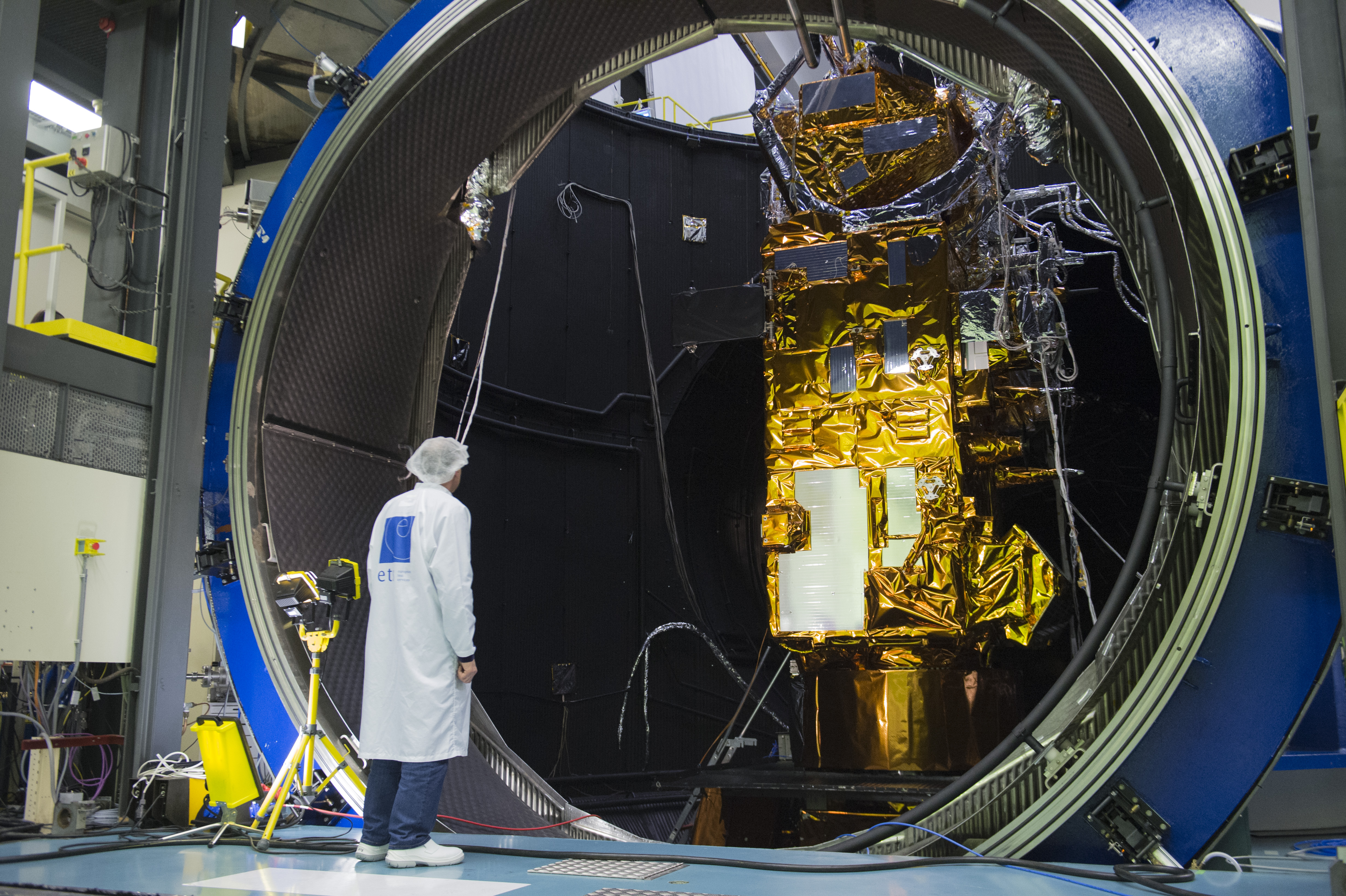 The payload module of MetOp-C, Europe’s latest weather satellite, seen through the side door of Europe’s largest vacuum chamber, the 10 m-diameter Large Space Simulator, during testing in March 2017. The LSS is part of ESA’s Test Centre in the Netherlands, the largest facility of its kind in Europe, providing a complete suite of equipment for all aspects of satellite testing under a single roof. MetOp-C’s MetOp-C’s instruments must be tested in space-like vacuum conditions. High-performance pumps will remove all air within the chamber to create an orbital-quality vacuum. Meanwhile, liquid nitrogen will circulate through the black walls to mimic the cold of sunless space. MetOp is a set of three polar-orbiting satellites whose temperature and humidity observations from a relatively close 800 km-altitude orbit have sharpened the accuracy of weather forecasting. Procured by ESA for Eumetsat, the European Organisation for the Exploitation of Meteorological Satellites, MetOp-A was launched in 2006 and MetOp-B in 2012, with MetOp-C due to follow next year. The 2.1 tonne module carries a suite of meteorology and climatology instruments, variously procured by ESA or sourced from Eumetsat, France’s CNES space agency and the US National Oceanic and Atmospheric Administration. Once testing is complete, MetOp-C’s payload module will travel to the Airbus Defence and Space facility in Toulouse, France, to be integrated with its service module – the segment of the satellite providing attitude and orbit control, electrical power and communications, and hosting the main computer. The launch of MetOp-C by Soyuz from Europe’s Spaceport in French Guiana is scheduled for October 2018.